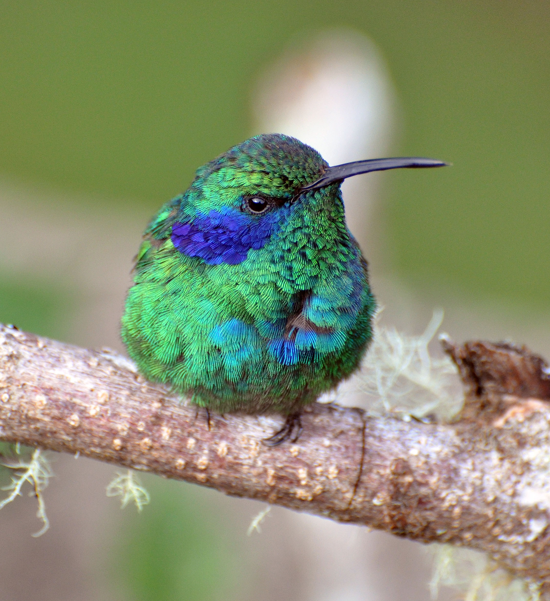 Colibri thalassinus cyanotus 26-Mar-12 Savegre Valley, Costa Rica